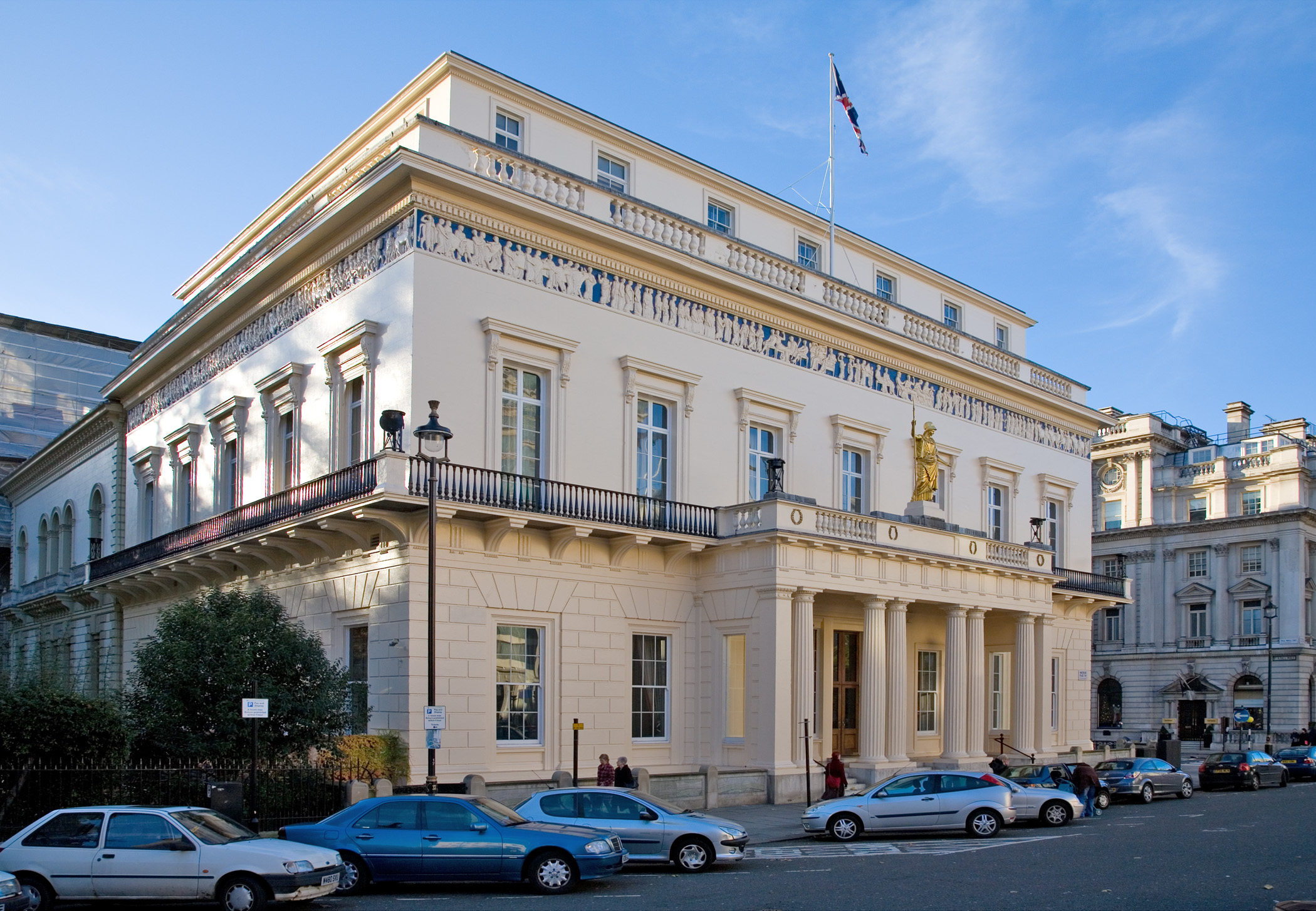 The Athenaeum Club on Pall Mall, London. Taken by myself with a Canon 5D and 24-105mm f/4L IS lens.